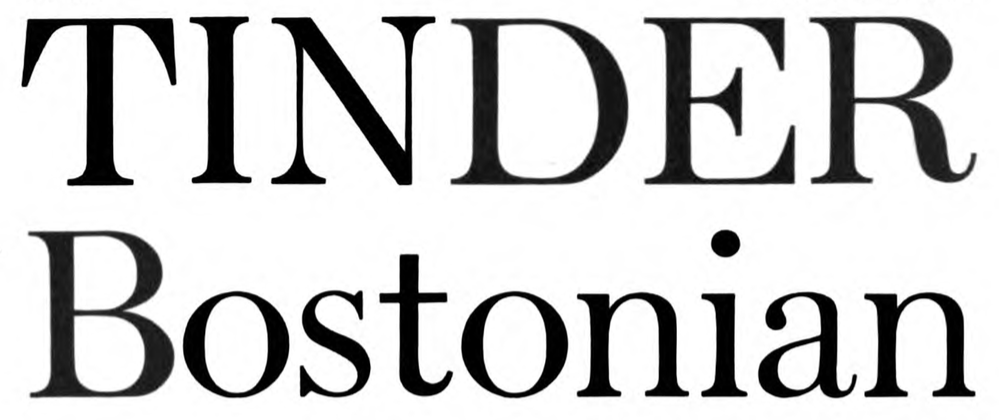 ATF Scotch Roman 72pt in Supplement to the American Line Type Book, 1909